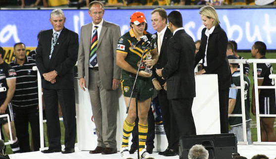 Billy Slater